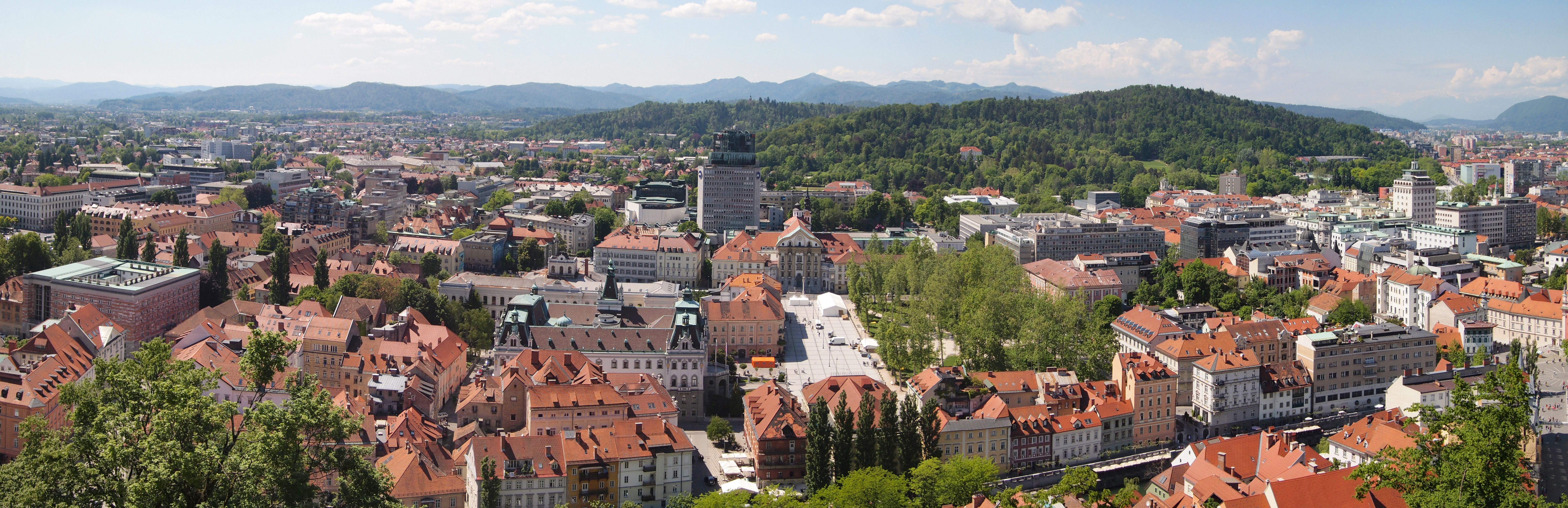 View of Ljubljana. This photograph was taken with a Olympus E-PL1.